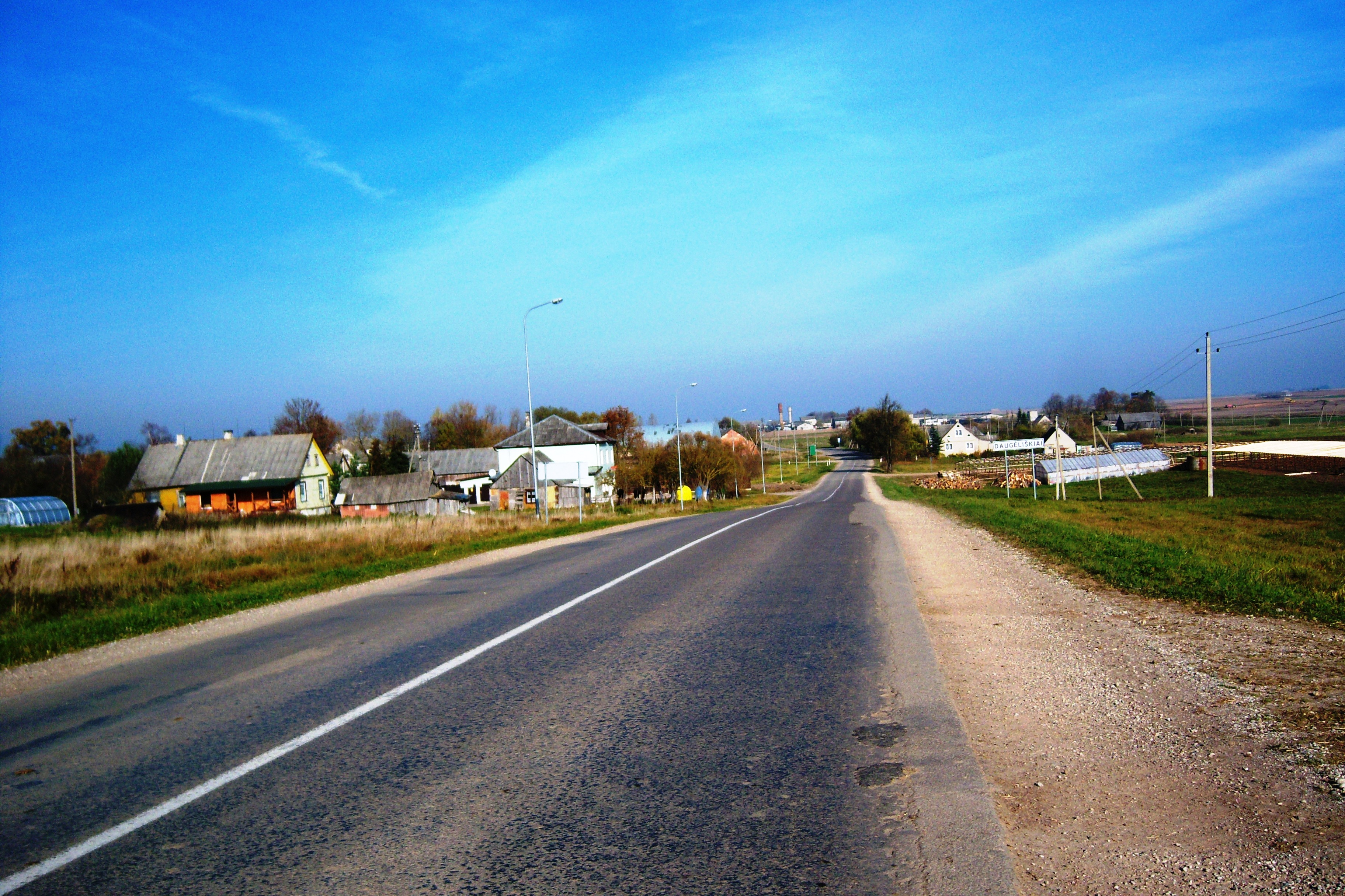 Daugėliškiai, Kaunas district, Lithuania